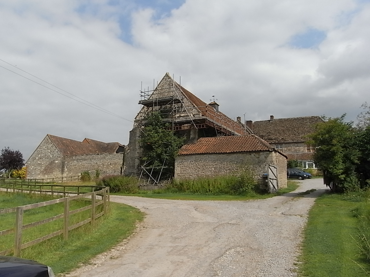 Brook Hall, Heywood, Wiltshire, looking North-East.